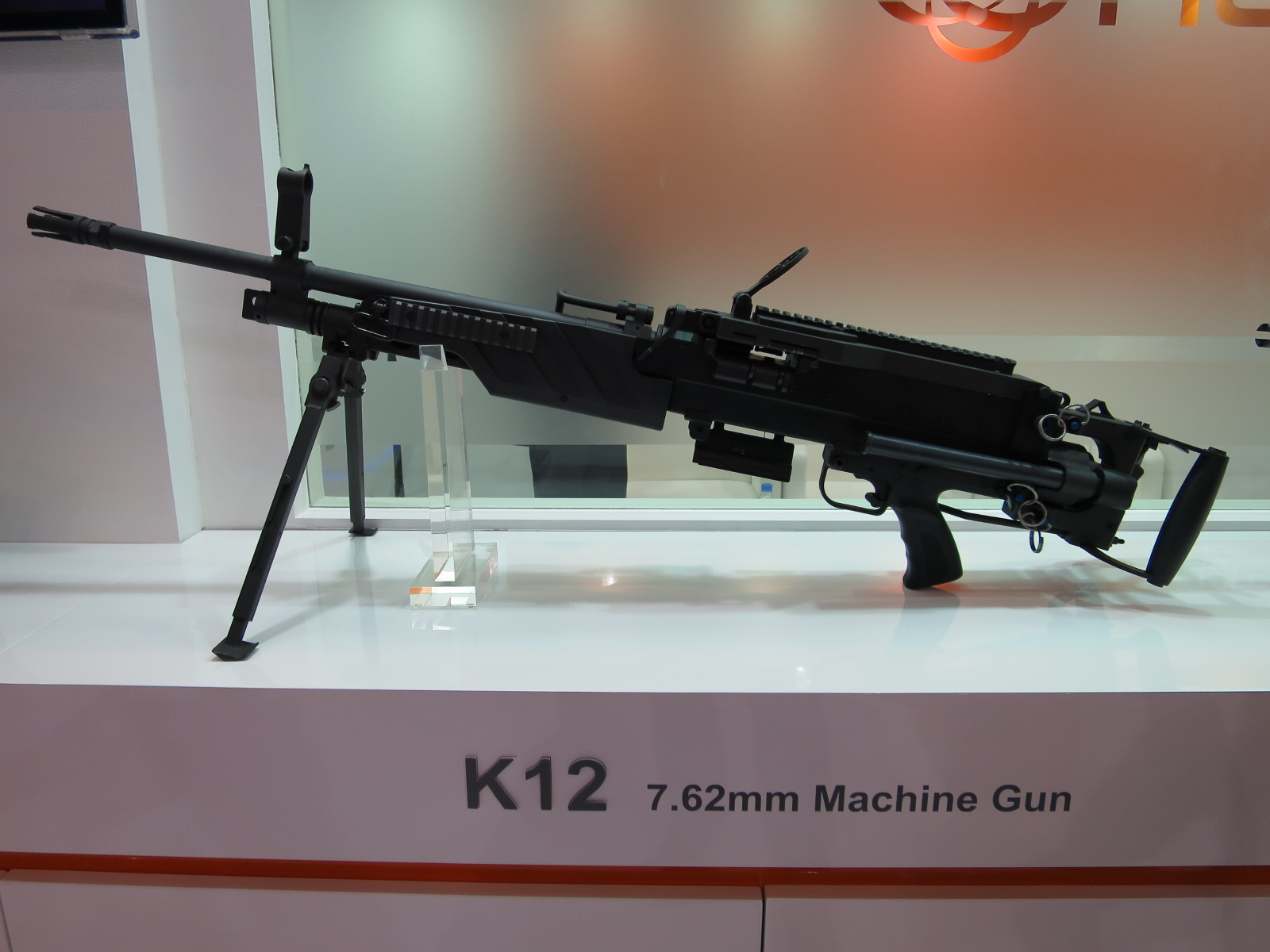 S&T Motiv K12 at IDEX, 24 February 2015